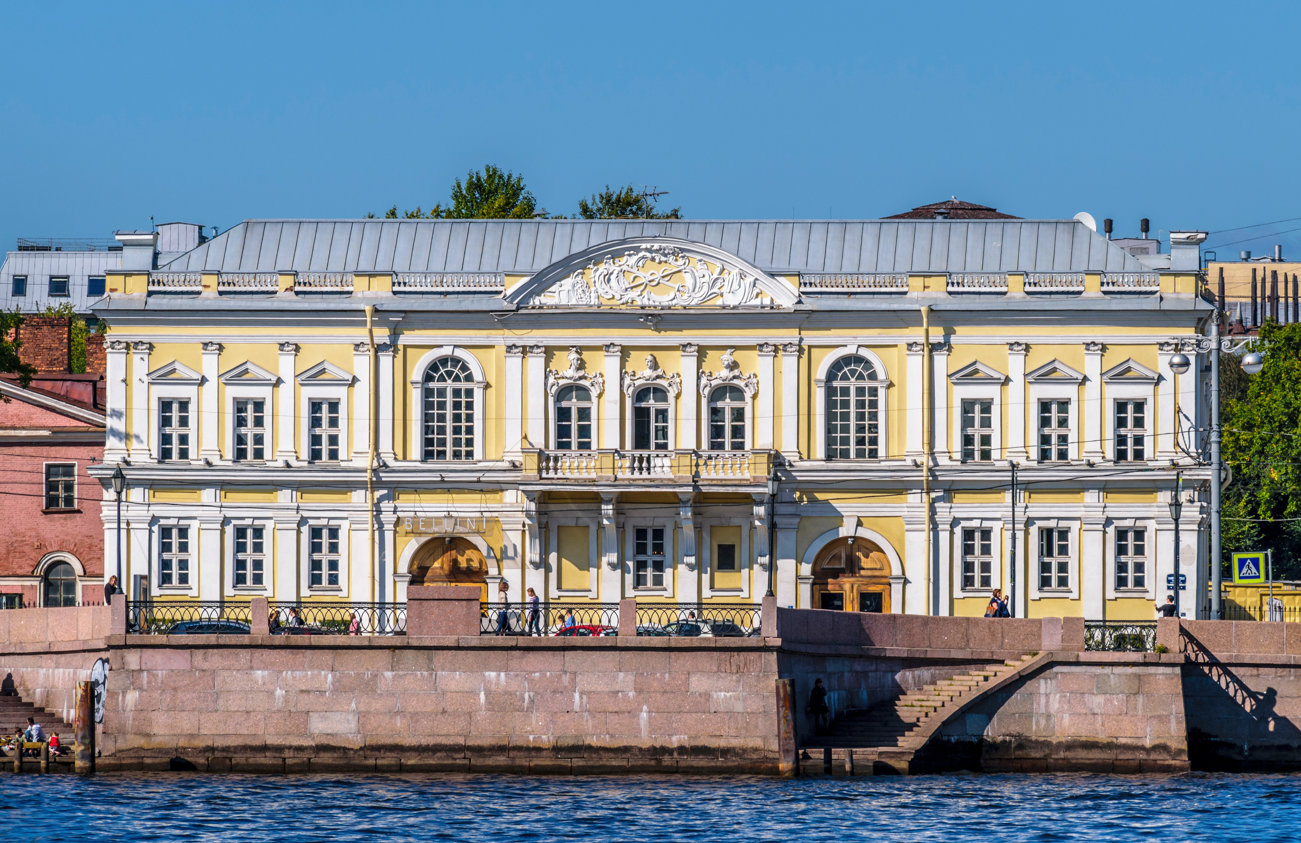 Manege of the First Cadet Corps in Saint Petersburg